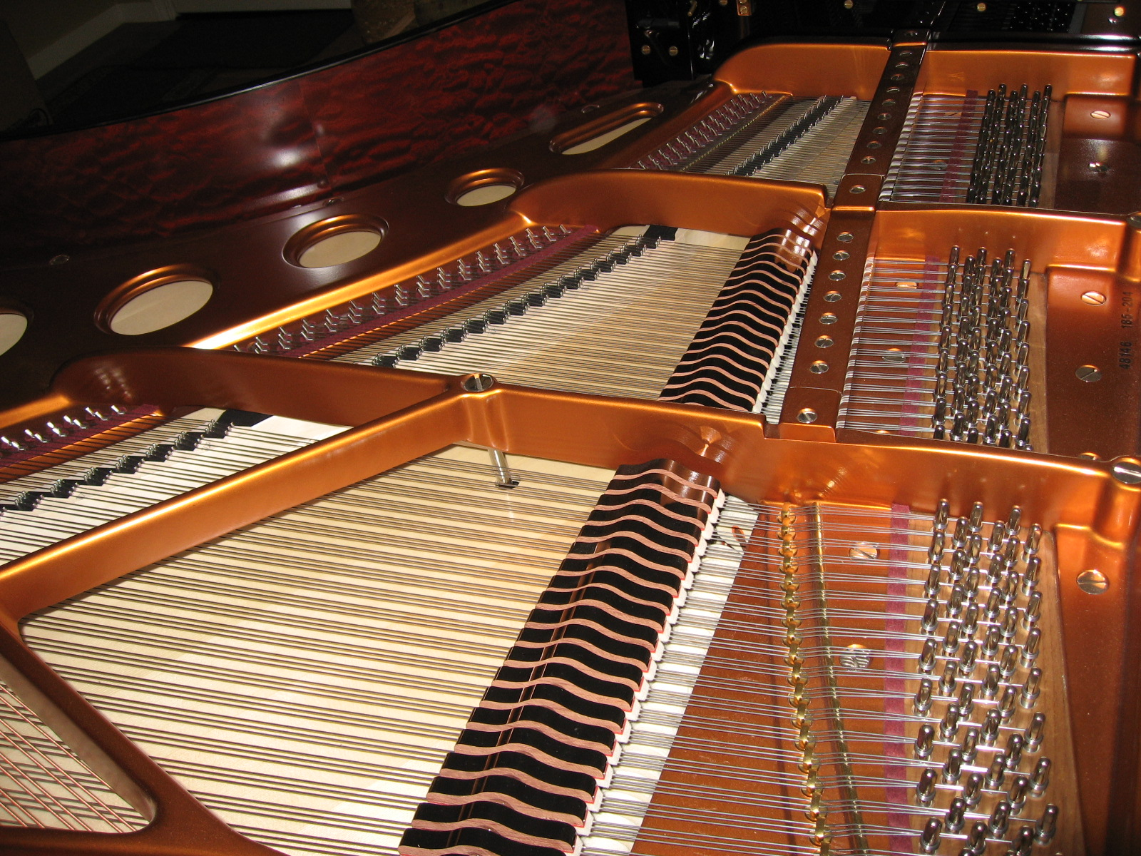 Image of a Bösendorfer piano. The removable capo d'astro bar is located across the upper two (treble) sections of the cast-iron plate.